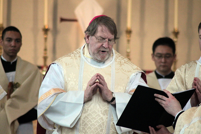 The Rt Revd Andrew Burnham SSC, Bishop of Ebbsfleet, presiding over his Stational Chrism Mass in S. John the Evangelist, New Hinksey